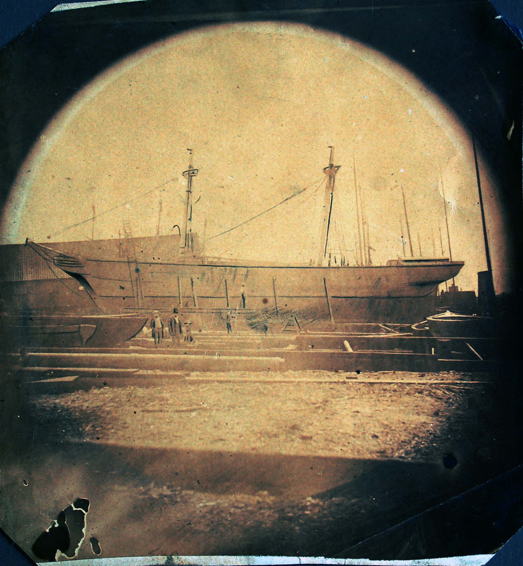 Johns shipyard ca. 1848-1852 with unknown ship. Possibly the oldest known photograph from the port of Hamburg.